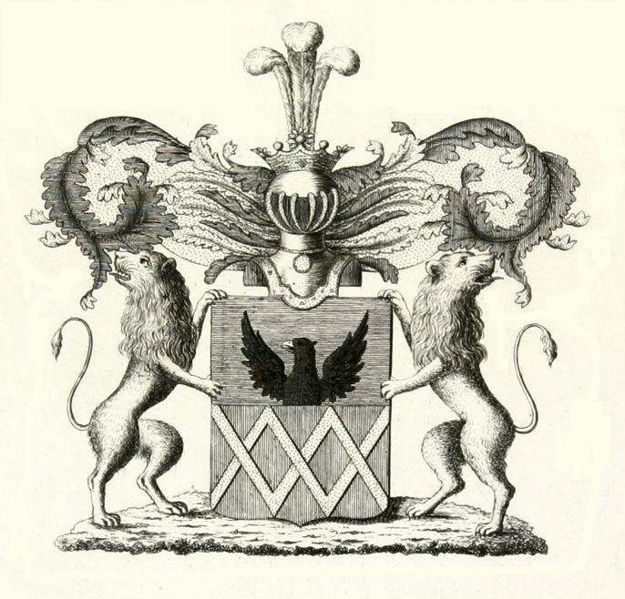 This (more than) 200 years old image has been reformatted, so it became a personal creation, with no rights attached